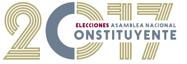 Logo of the 2017 Constitutional Assembly of Venezuela.